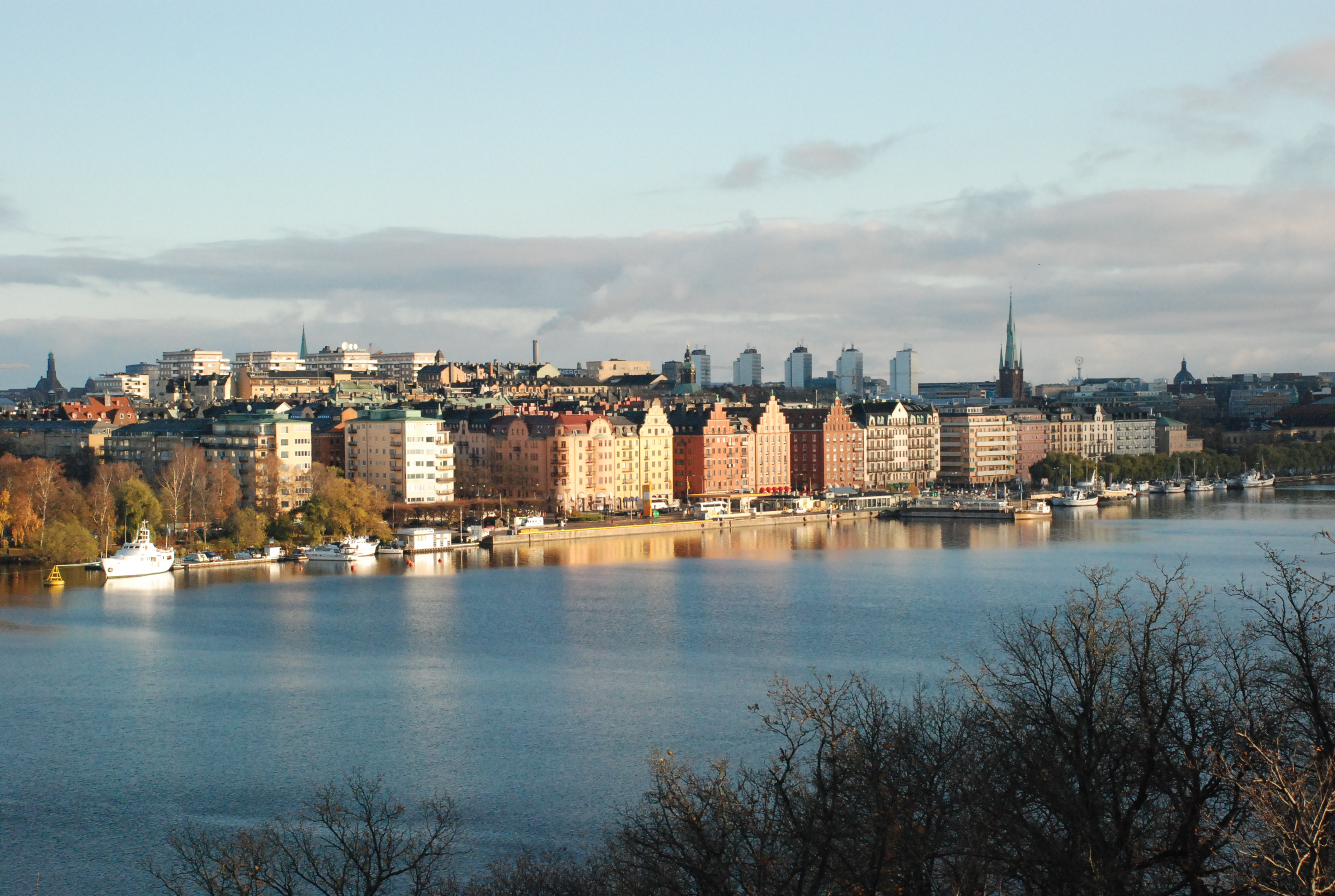 The south shore of the island Kungsholmen in Stockholm, Sweden.